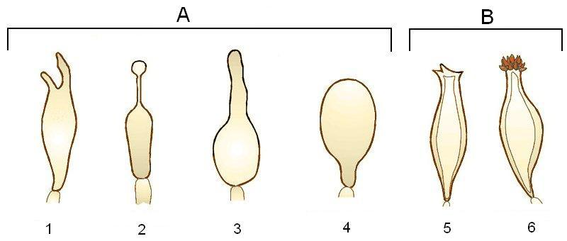 Cystidia, fungal structures. A — thin-walled, B — thick-walled; 1 — bifid, 2 — tibiiform, 3 — lanceolate, 4 — pyriform, 5 — lamprocystidium, 6 — encrustated metuloid